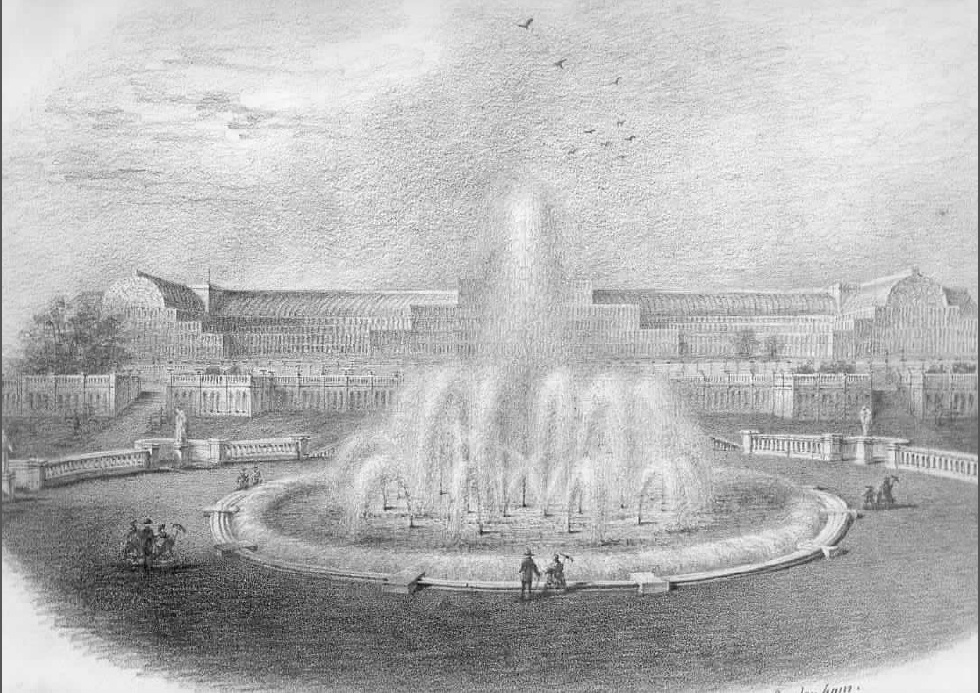 Drawing of Crystal Palace at its final location in Sydenham. Drawn by Thomas Oliphant as part of a series of drawings of Crystal Palace between 1855 and 1860. The collection is in the ownership of Oliphant's family.